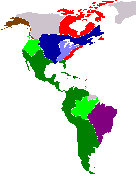 Blank map of European colonization of the Americas in 1750. Spanish territory Spanish claimed territory Portuguese territory French territory French territory claimed by Britain British territory Russian territory